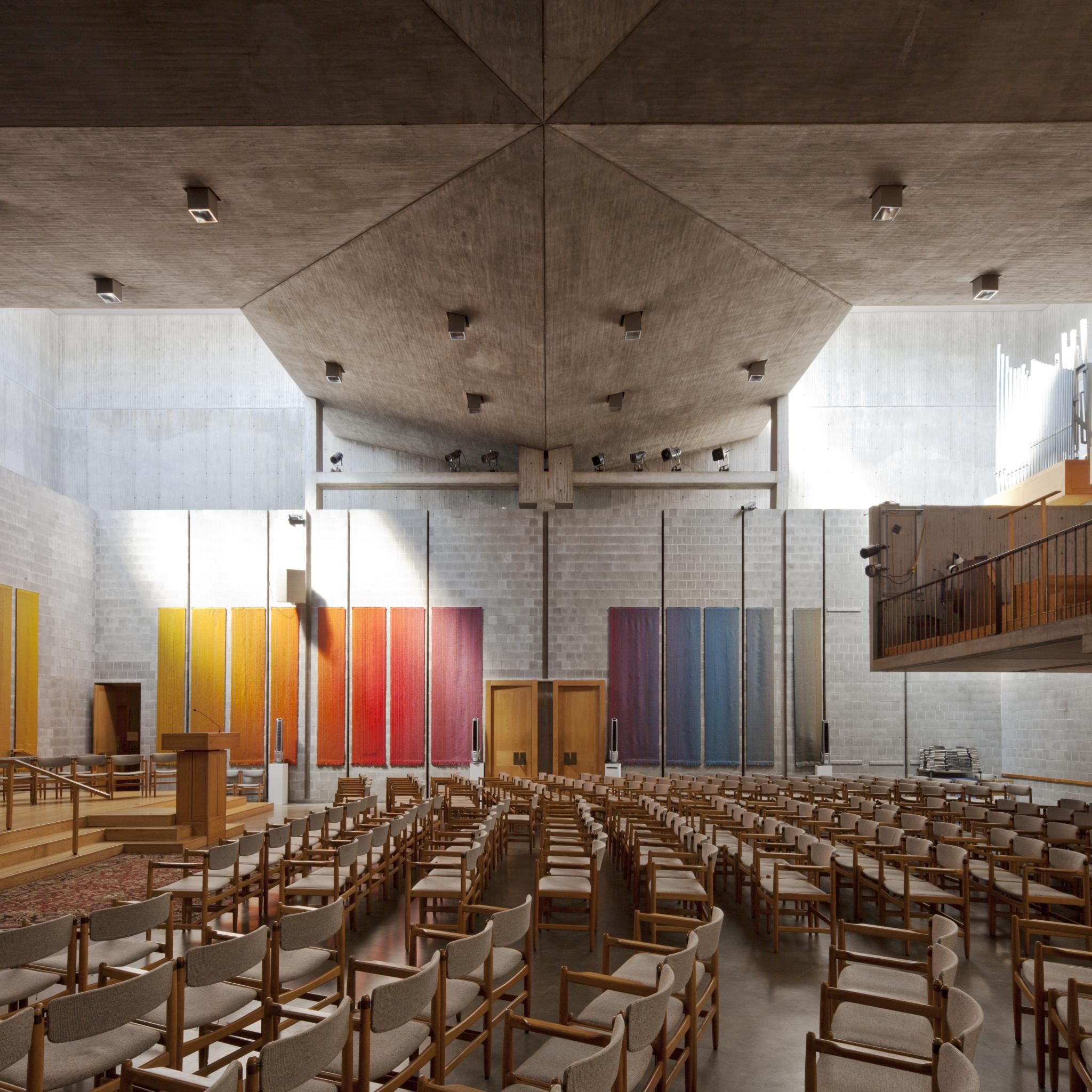 Sanctuary with light wells at First Unitarian Church of Rochester